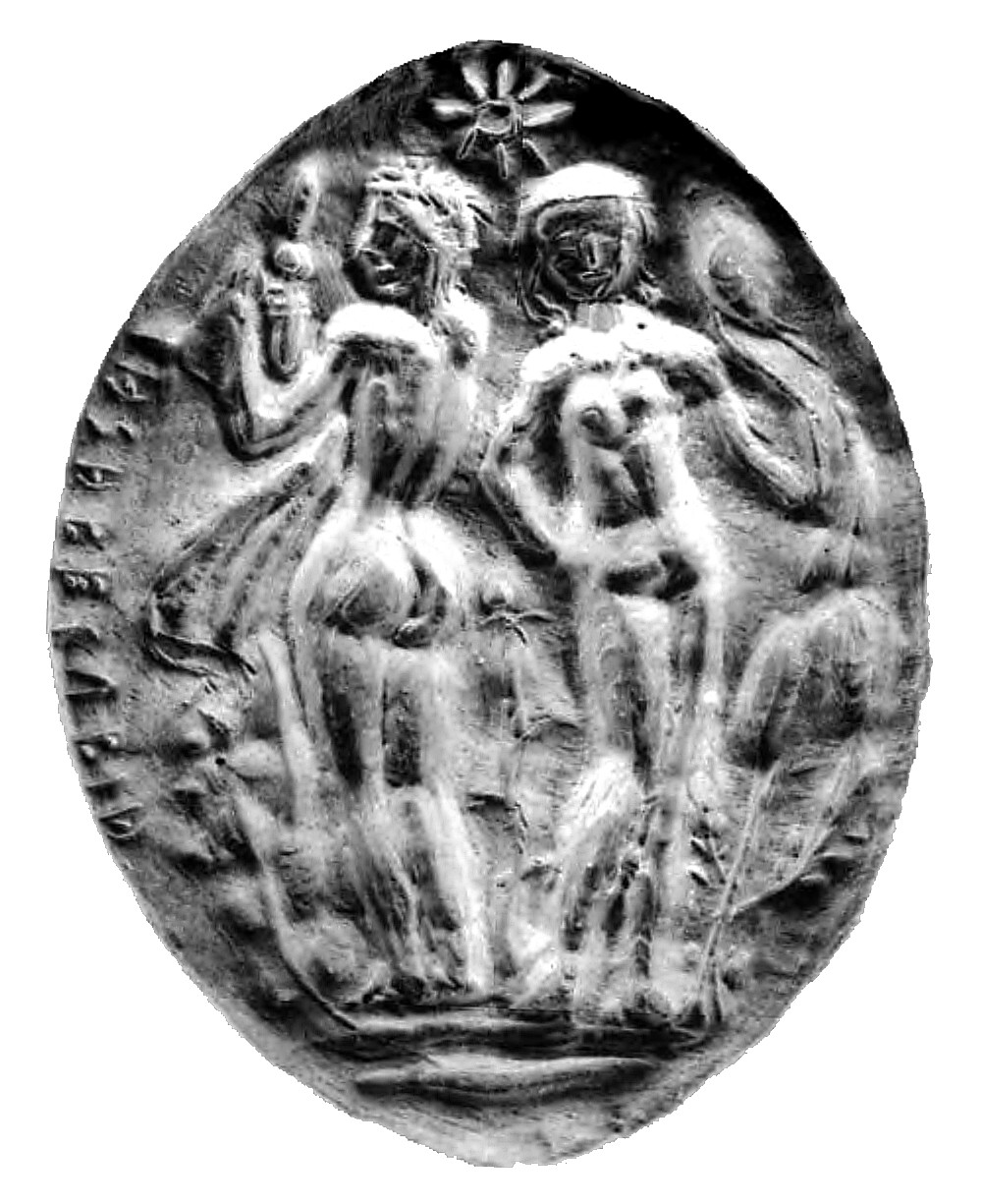 Gold ring bezel with Lasa Vecuvia from Todi. Early third century BC. Museo Etrusco di Villa Giulia, Rome. Negative photography.